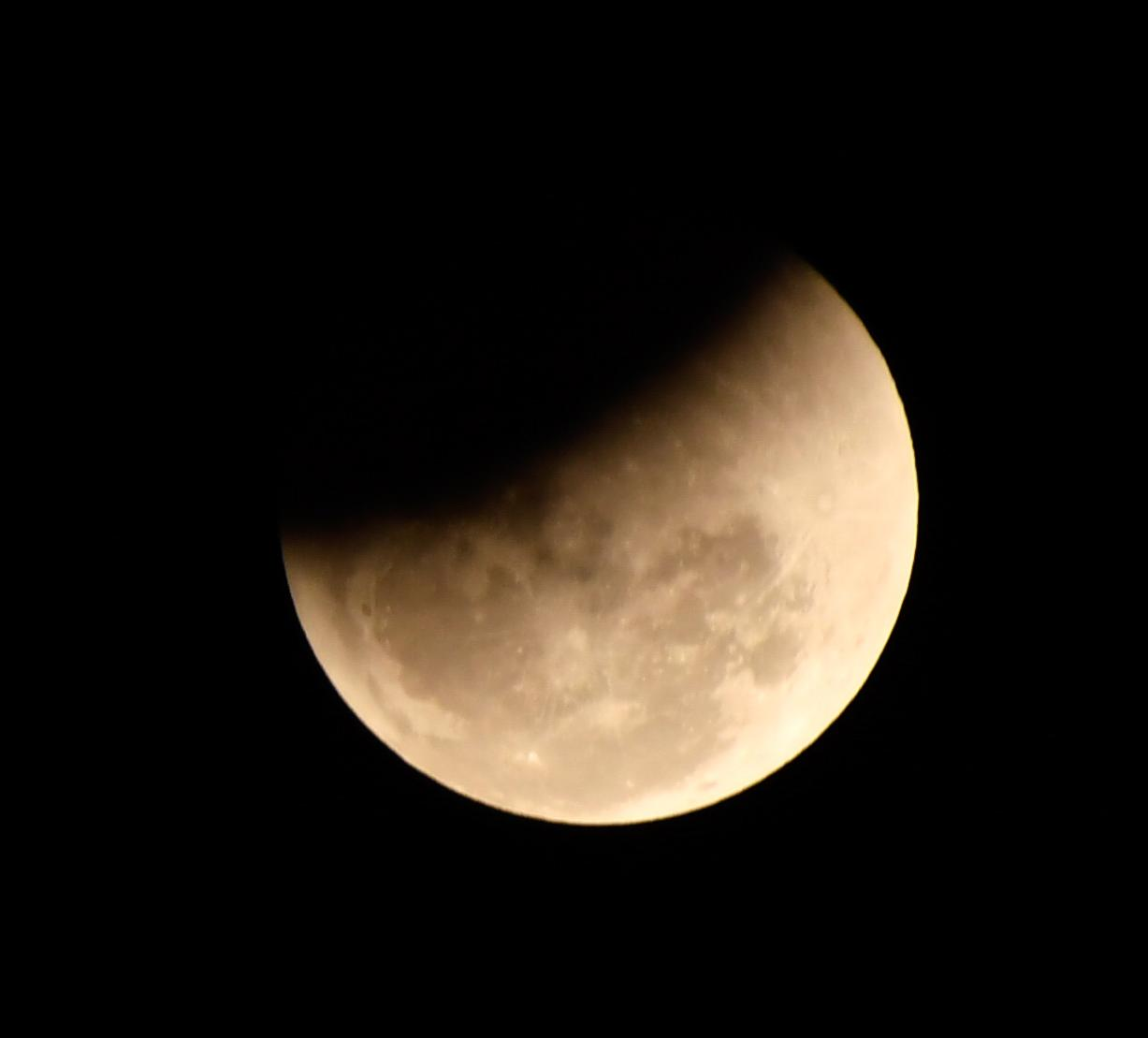 January 2018 Lunar Eclipse took place on 31st January 2018 (→ Lunar Calendar).